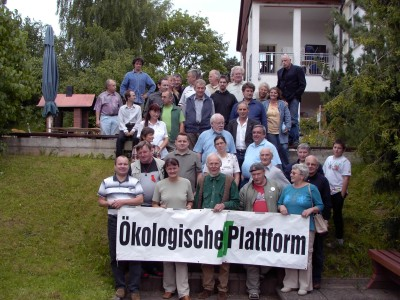 Meeting of the "Ökologische Plattform" (ecological platform) in the year 2007